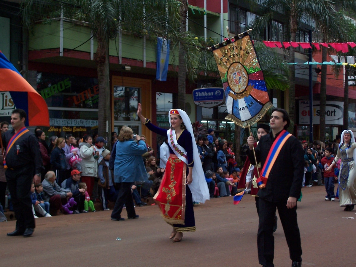 The Armenian colectivity, coming from Buenos Aires, during the inaugural parade of XXVI Immigrant's National Festival, in Oberá, Misiones, Argentina.